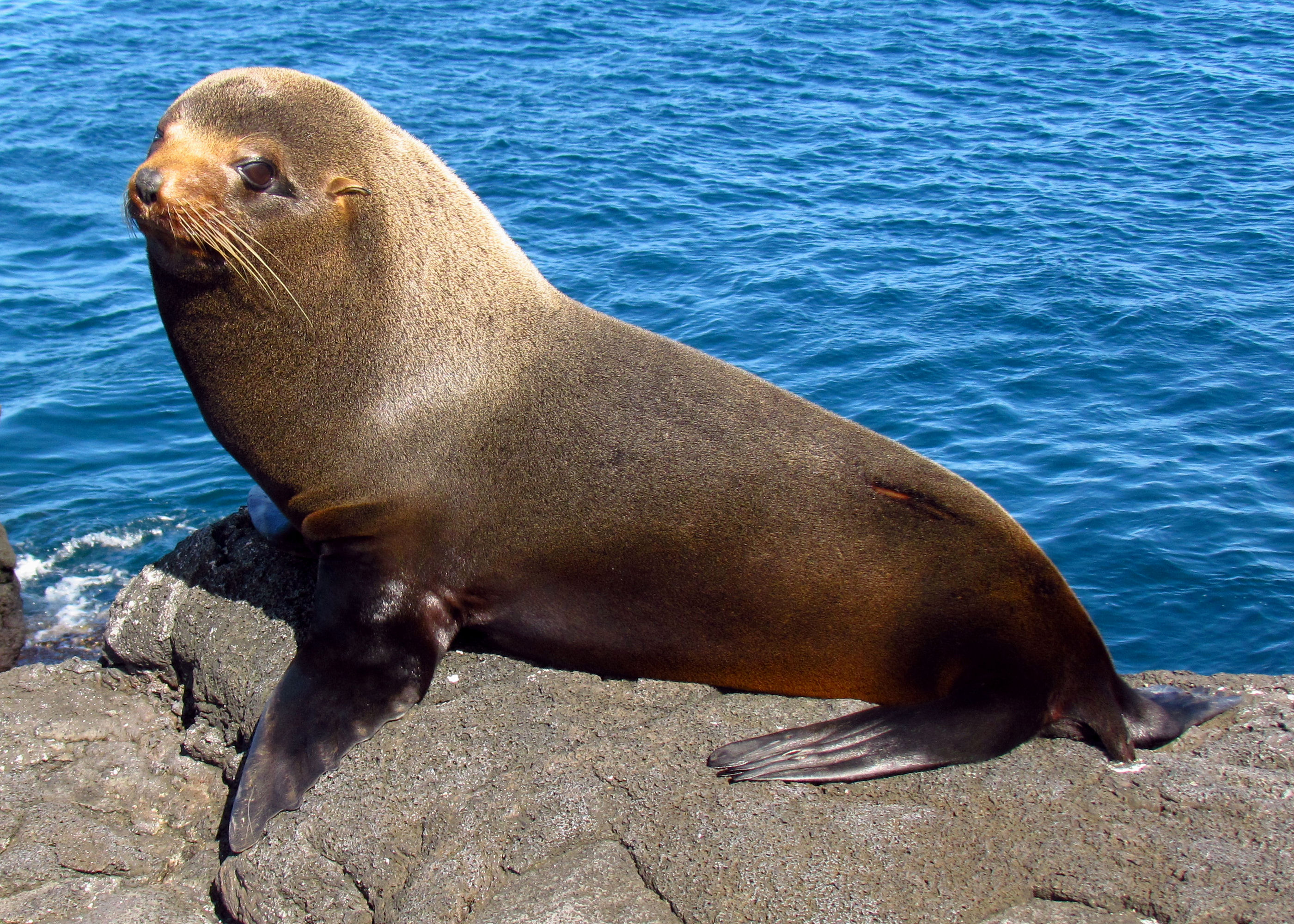 Galápagos Fur Seal (Arctocephalus galapagoensis), male, Santiago Island, Ecuador